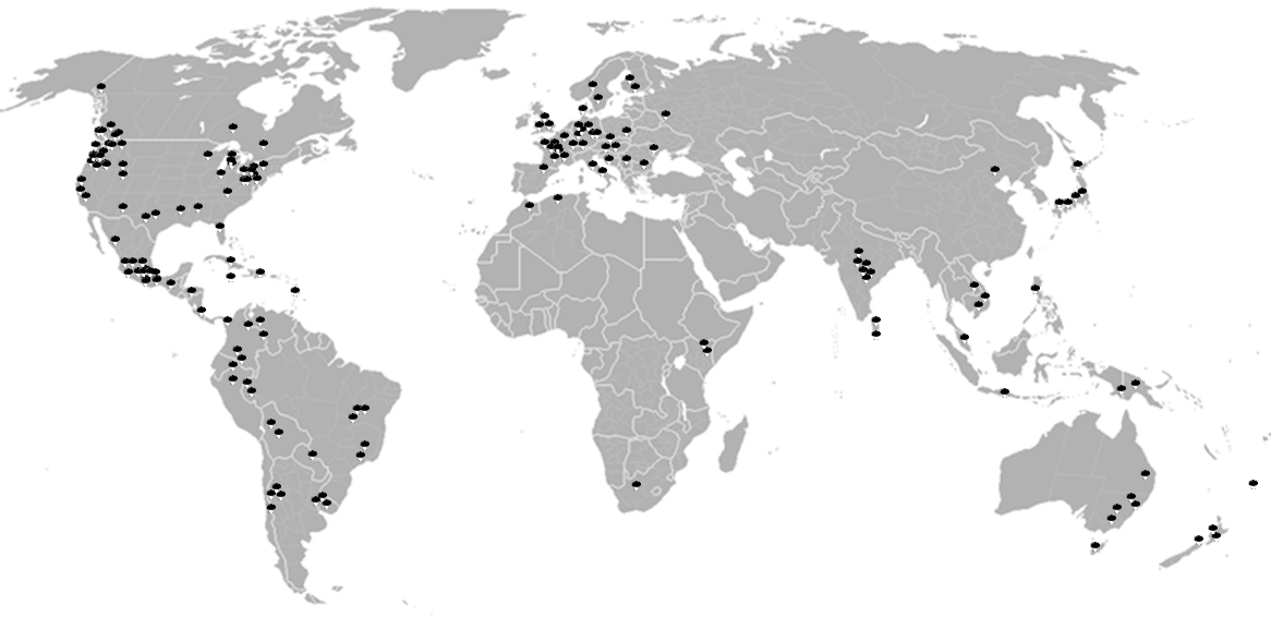 Global distribution of pschoactive species of Psilocybe genus mushrooms